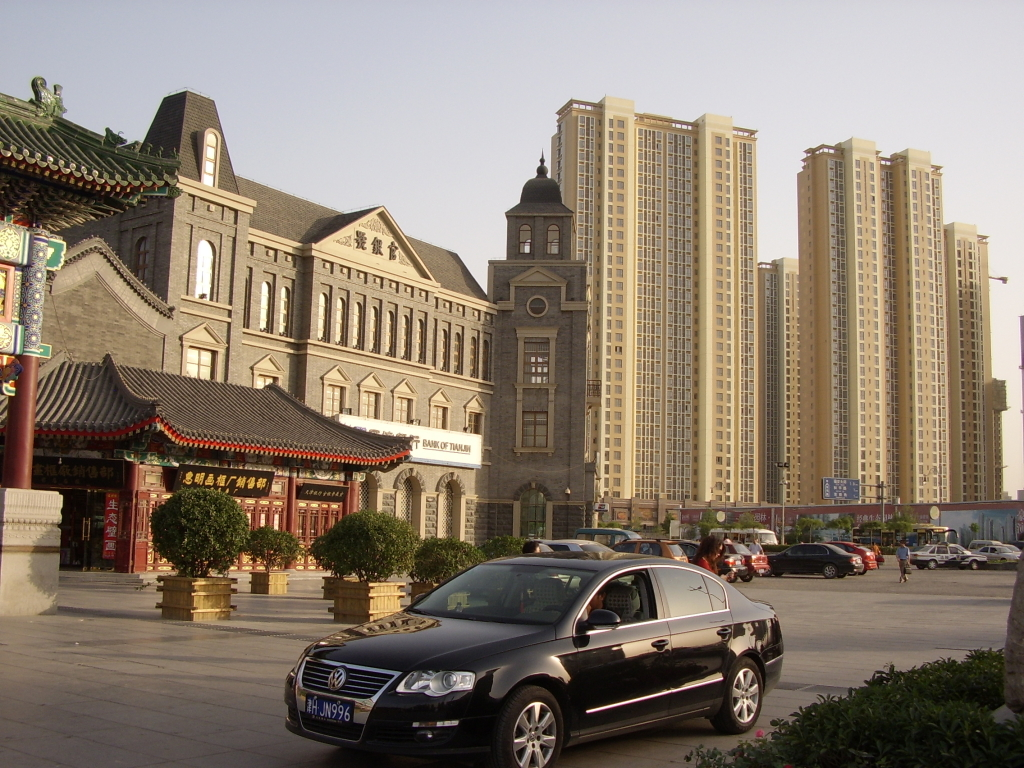 Tianjin Guanyihao